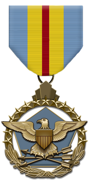 Defense Distinguished Service Medal of the United States military, established in 1970 by Executive Order 11545